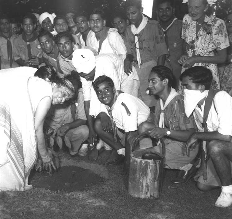 Sarojini Naidu plants a tree in Mehrauli, Delhi on July 23, 1947, during the Plantation Week opened on July 20.